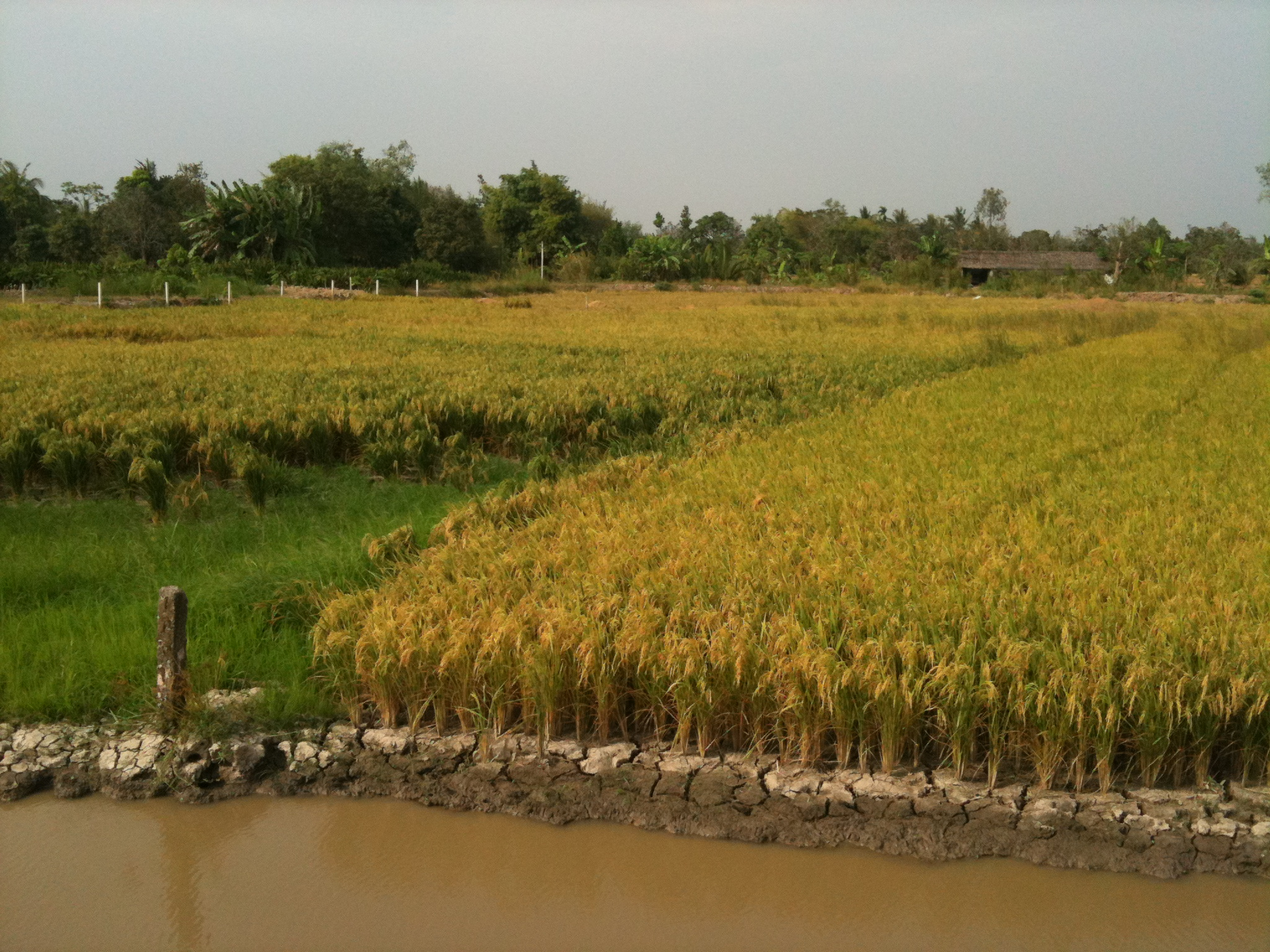 Rice fields in Binh Thuy District, Can Tho, Vietnam.